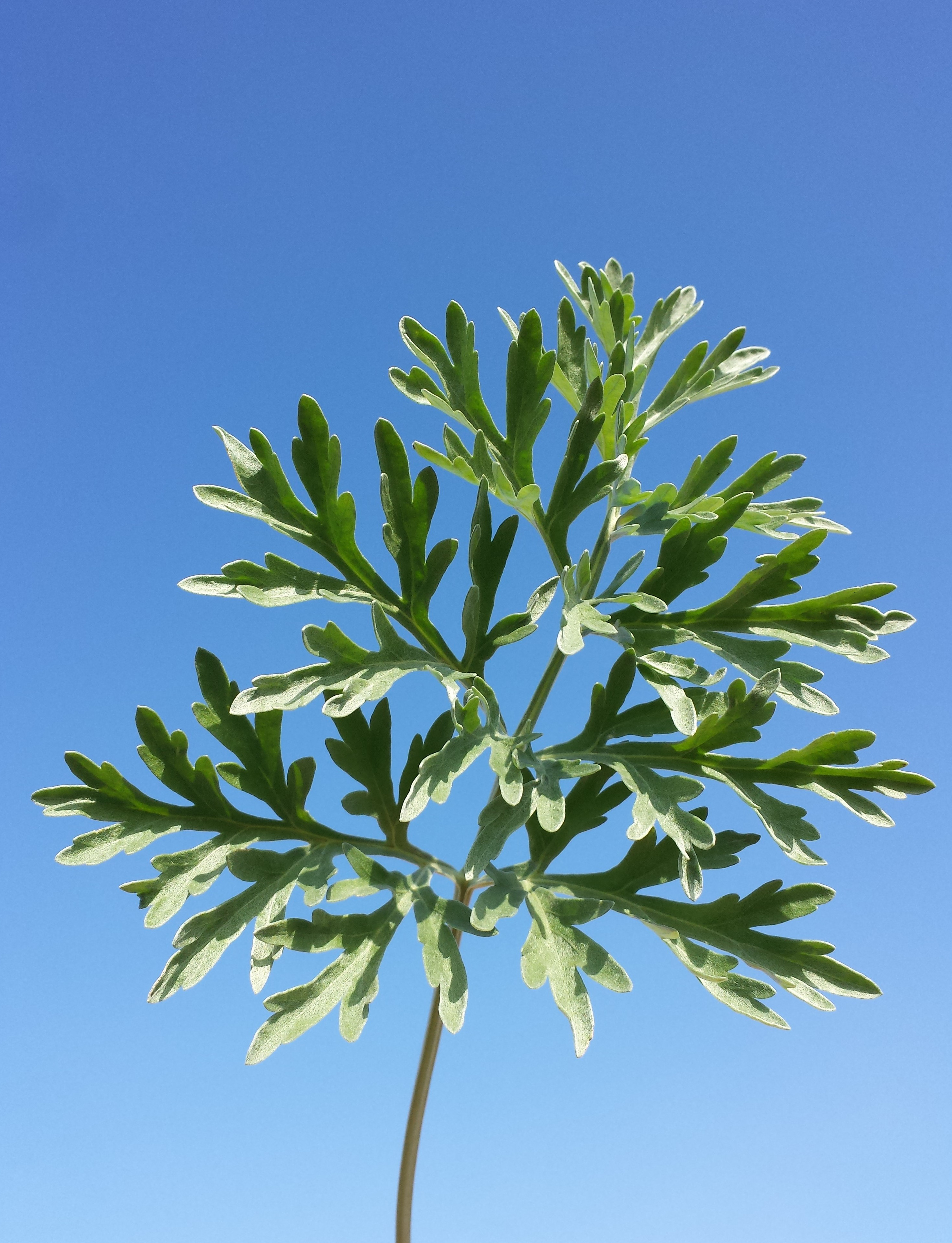 Leaf Taxonym: Artemisia absinthium ss Fischer et al. EfÖLS 2008 ISBN 978-3-85474-187-9 Location: semi-dry grasslands and wine yards to the north of Oberthern, municipality Heldenberg, district Hollabrunn, Lower Austria - ca. 300 m ü. A. Habitat: rein